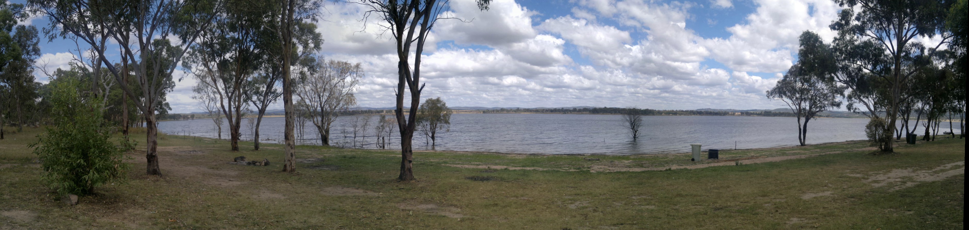 Glenlyon Dam near Warwick Queensland Australia